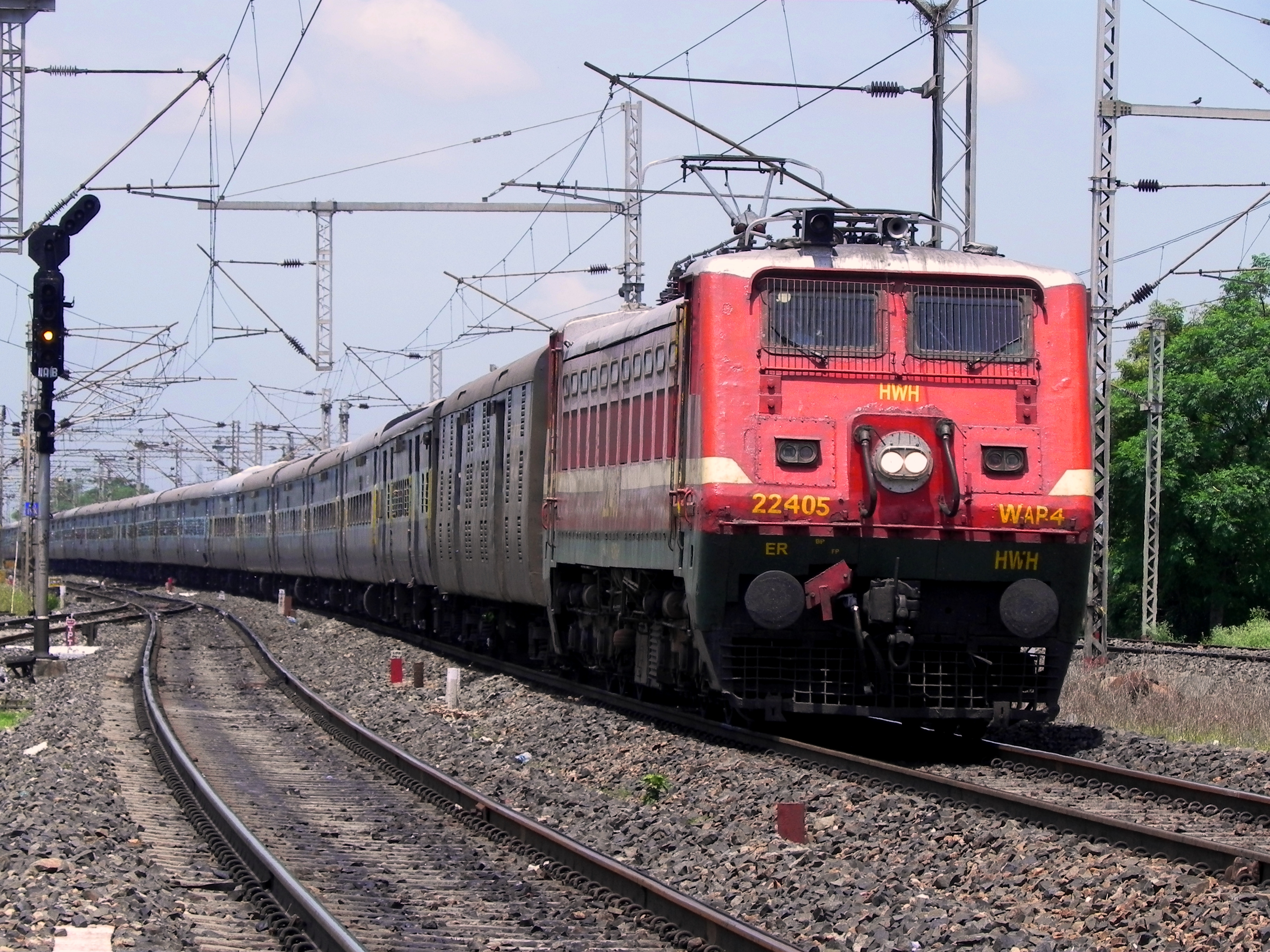 Kaziranga Express (SBC-Guwahati) with WAP-4 HWH shed loco at Khalor, West Bengal